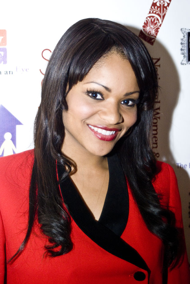 Actress Erica Hubbard Hosts S.I.S. Safe is Sexy Sexy is Safe for National Women and Girls HIV/AIDS Awareness Day at Salon Heaven on Michigan Avenue, Chicago, IL, USA. Photo by Adam Bielawski